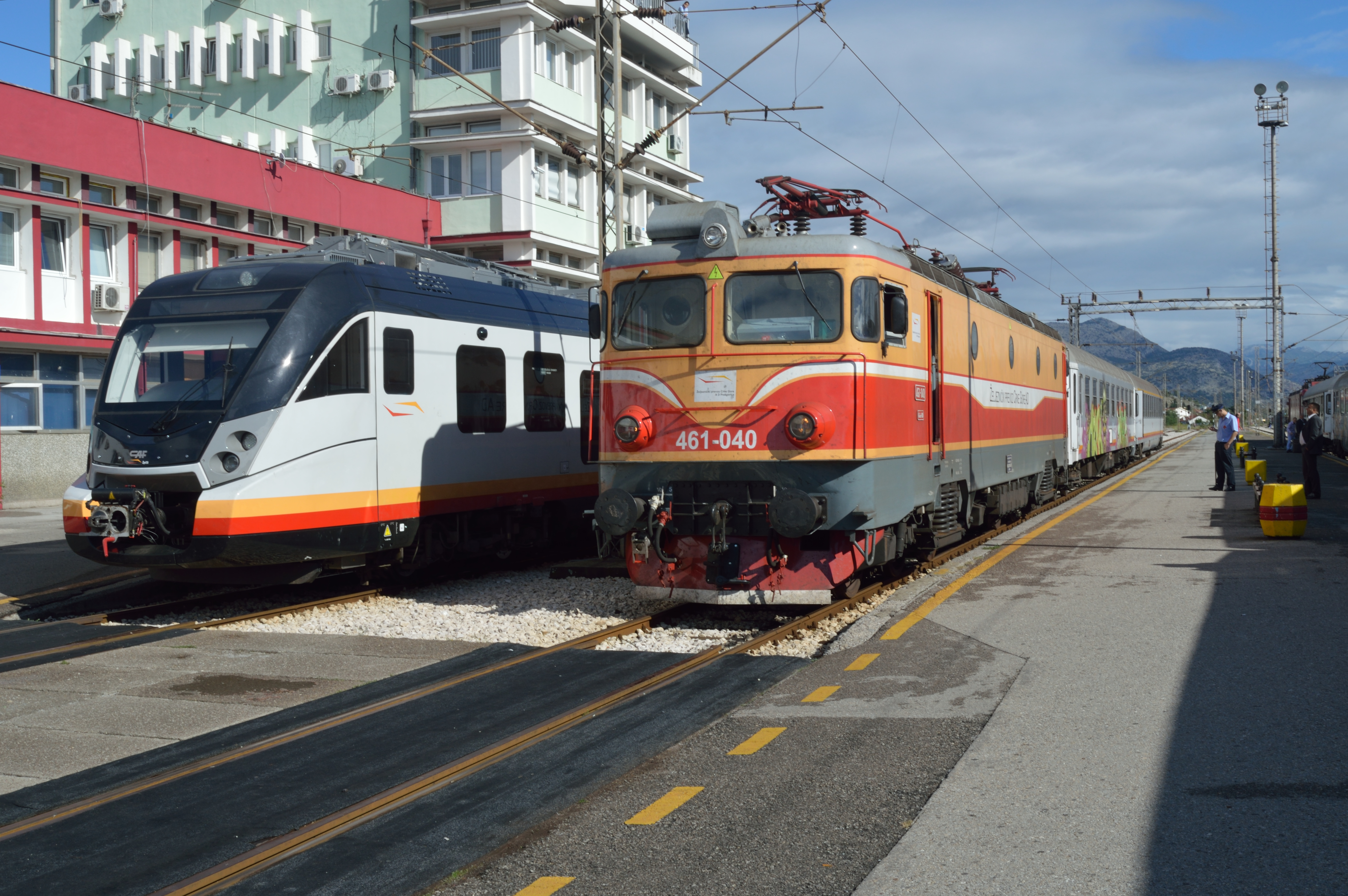 Balkans Rail Trip, Autumn 2013 - Day Nine New and old trains side by side at Podgorica. Seen at the Montenegrin capital station, Podgorica are examples of how the railway is set to change. On the left EMU 6111.101 is working train 7103, 08:40 Nikšić to Bar. To the right is part of the fleet of former Yugolslavian Railways now in ŽCG livery. Running in an hour late, train 6101, 06:30 Bijelo Polje to Podgorica hauled by 461.040 is seen beside. Date taken 1 October 2013.